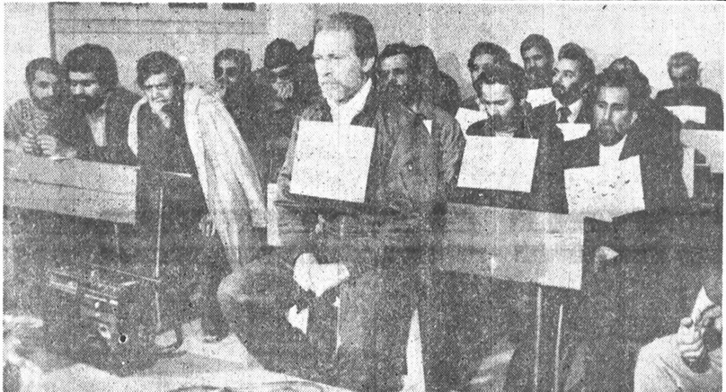 Nader Jahanbani in court